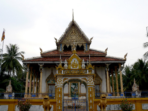 Wat Peapahd in Battambang in Cambodia in March 2009.